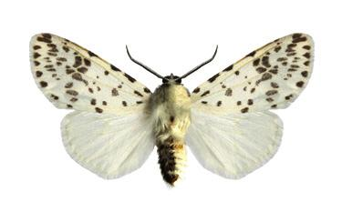 Hyphantria cunea male